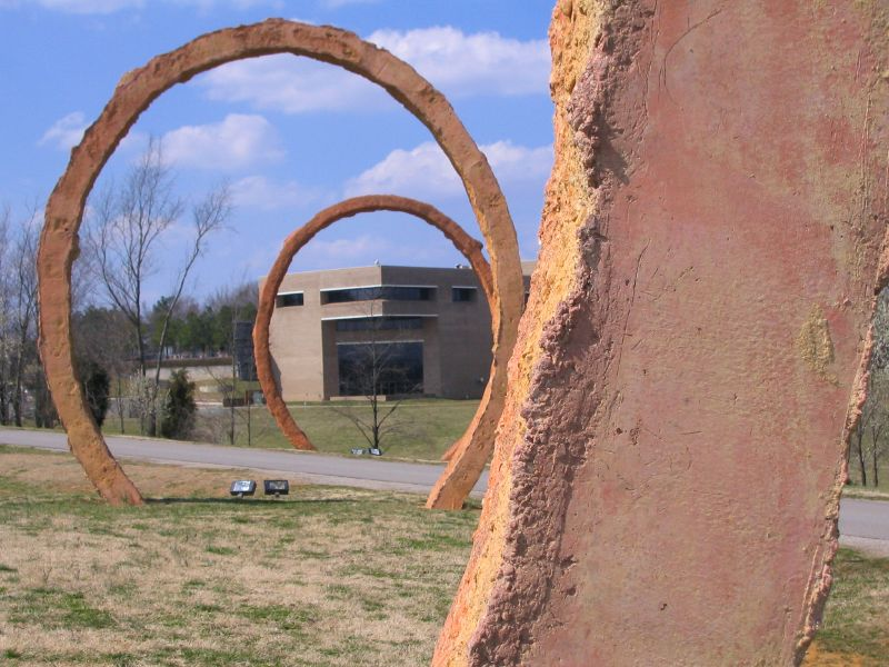 Concrete sculpture in the 'Sculpture Field' — at the North Carolina Museum of Art.